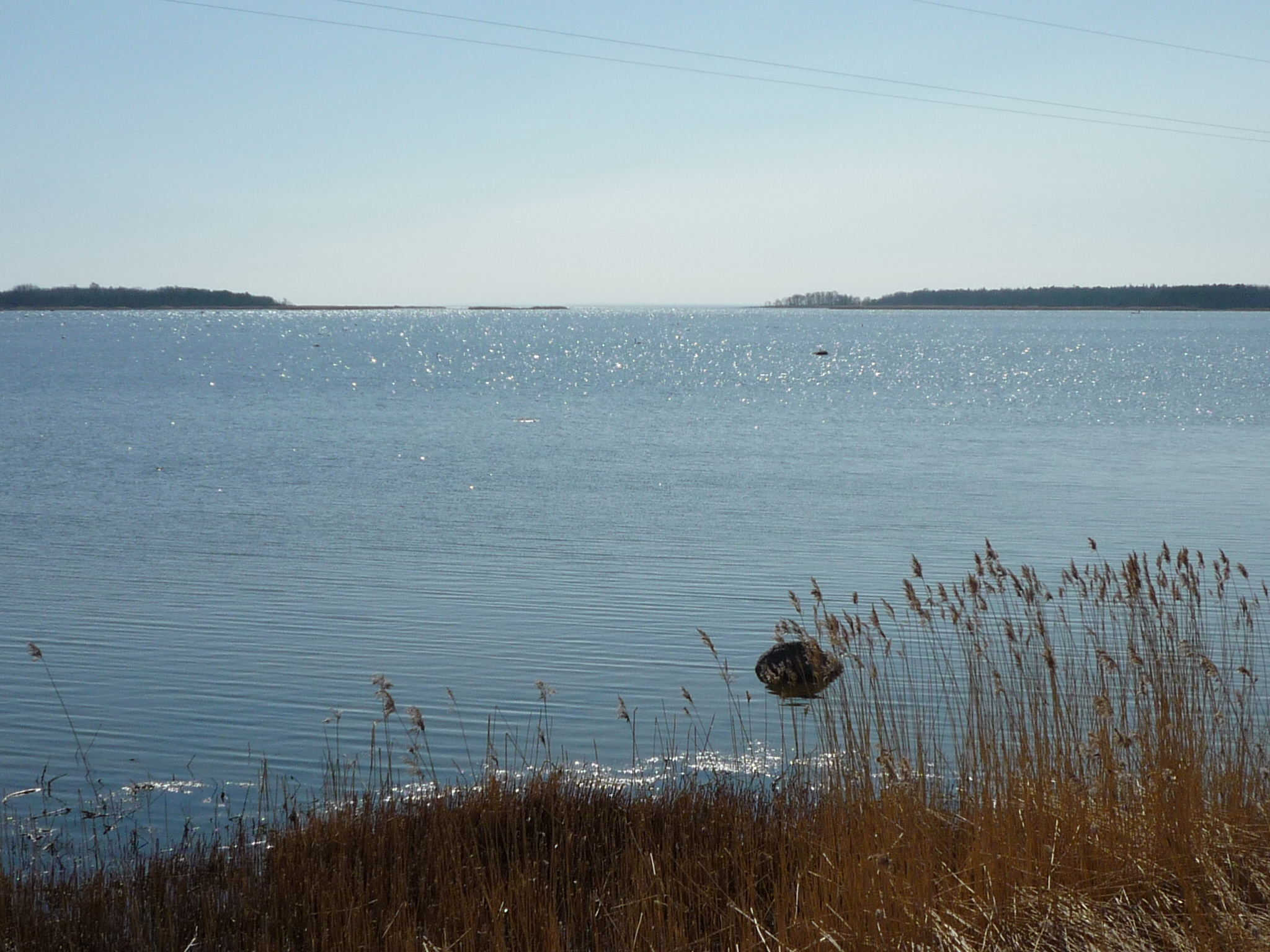 Bay of Rame near Virtsu. View from old railway embankment to south. Rame coast is left and Puhtulaid right. Hanila parish, Lääne county, Estonia.